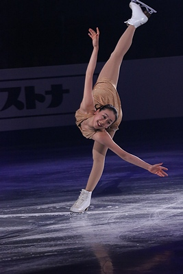 Mao Asada during her exhibition program "Smile" at the 2013-2014 Grand Prix of Figure Skating Final.